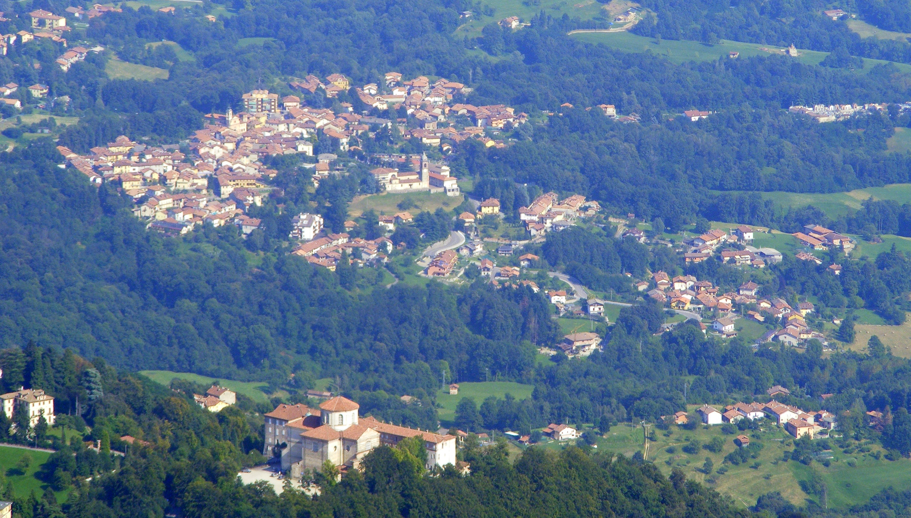 Graglia (BI, Italy): panorama from Alpe Amburnero - in the foreground the sanctuary of Madonna di Loreto